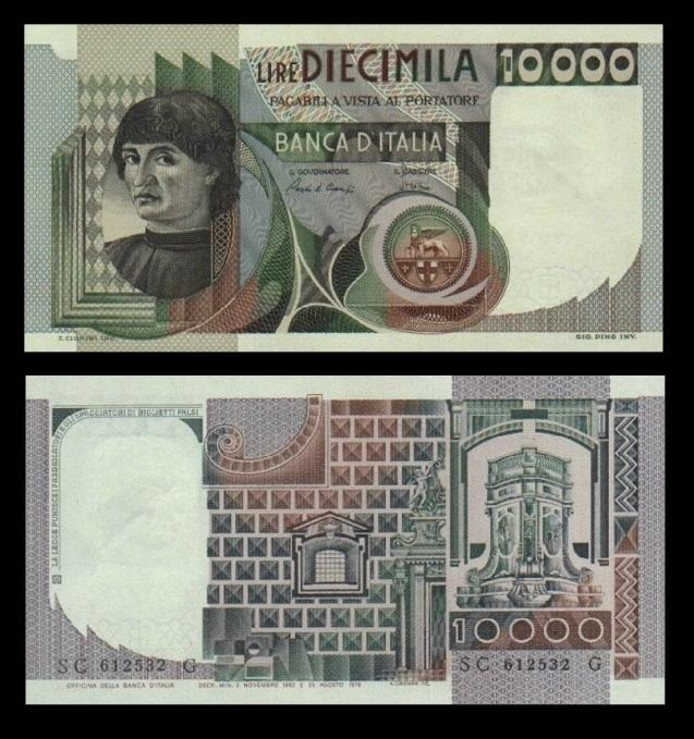 Italian 10.000 liras banknote, emitted from 1976 to 1984, inspired by a portrait of Niccolò Machiavelli by Andrea del Castagno kept in the Washington National Gallery of Art (USA).